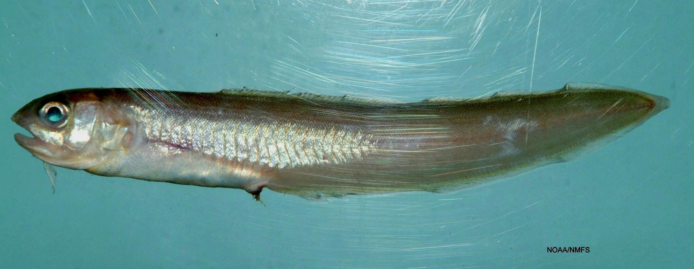 Bank cusk-eel or band cusk-eel (Ophidion holbrookii). Gulf of Mexico.